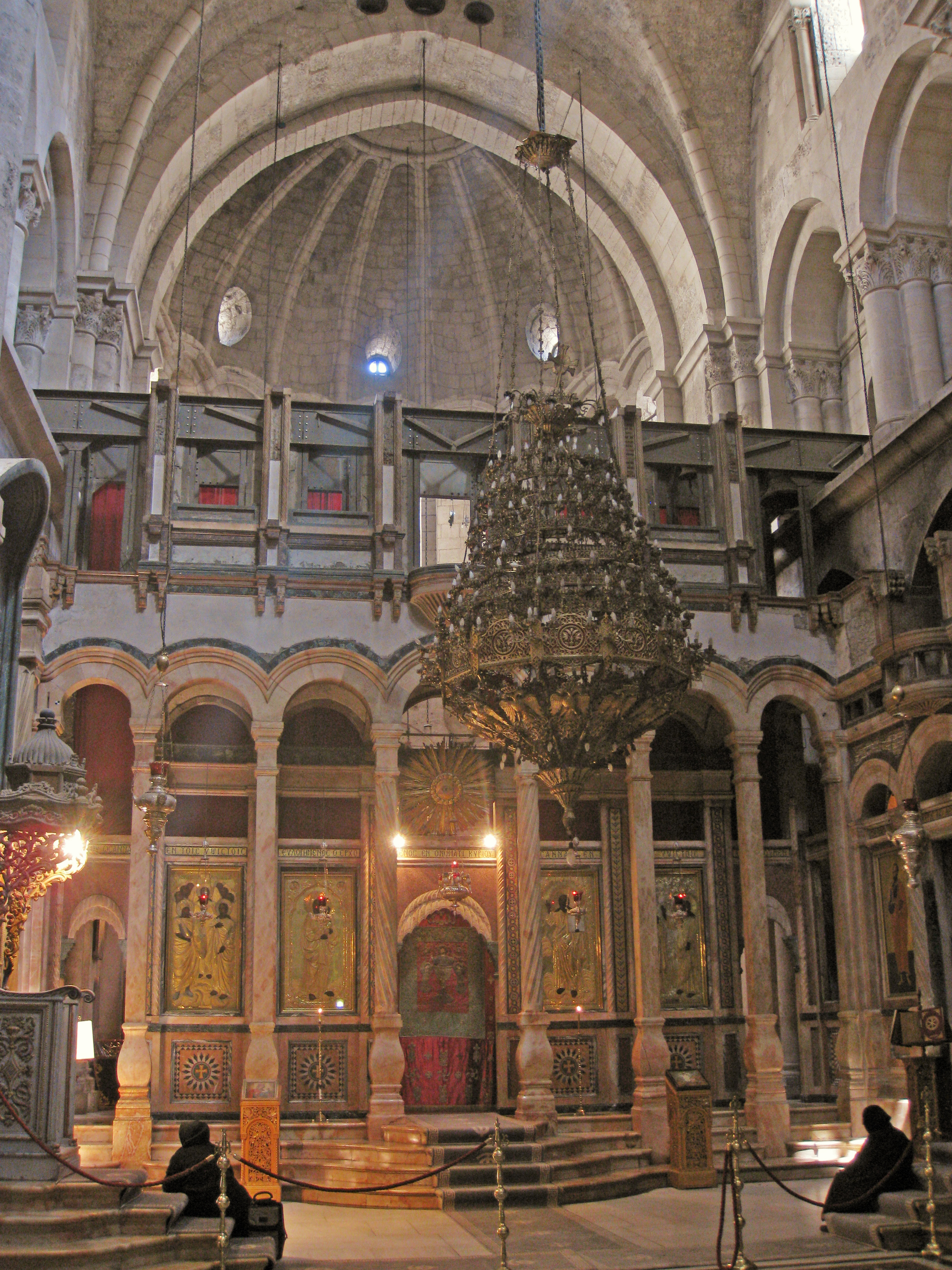 Greek Orthodox Catholicon in the Church of the Holy Sepulchre, Jerusalem - the iconostase